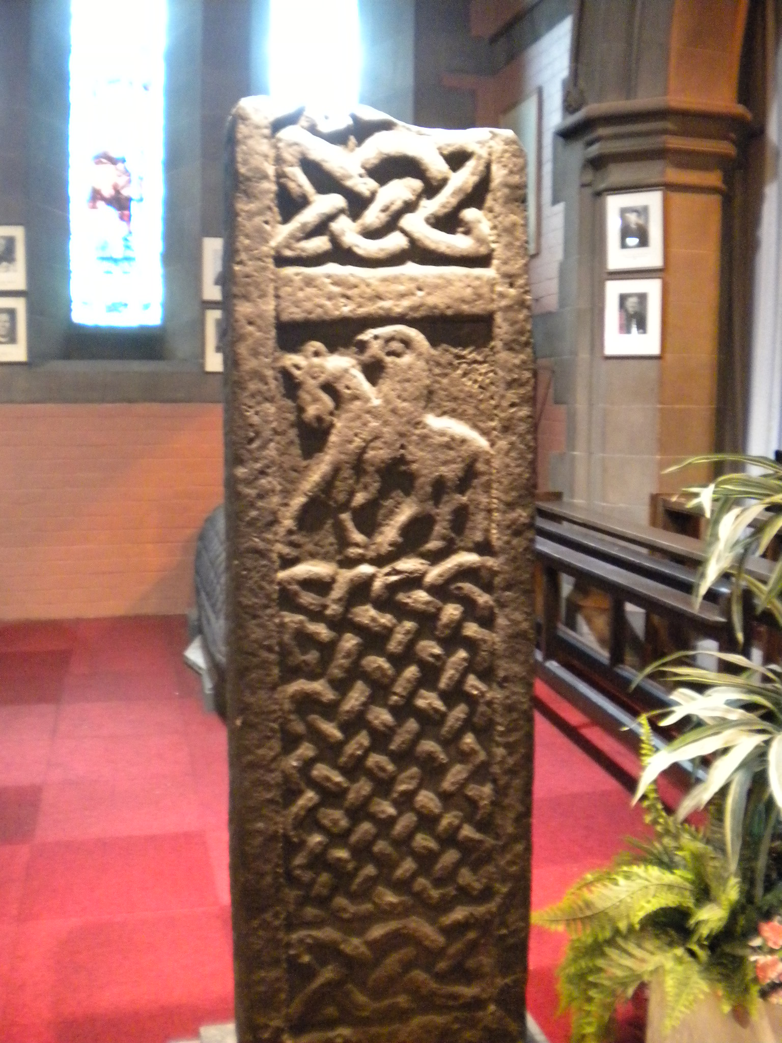 Carved cross in Govan Old Church, Glasgow. The cross came originally from the churchyard. It was laid flat.